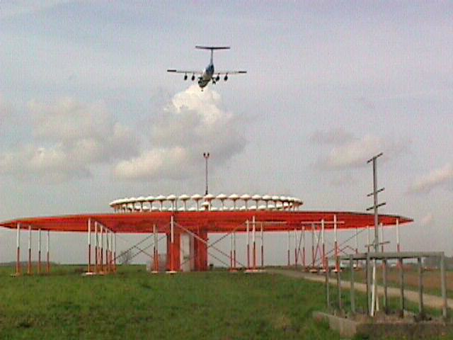 Radio stations of the Radionavigation Service (RNS), here VOR (VHF Omnidirectional Range) and DME (Distance Measuring Equipment) Brussels Airport.